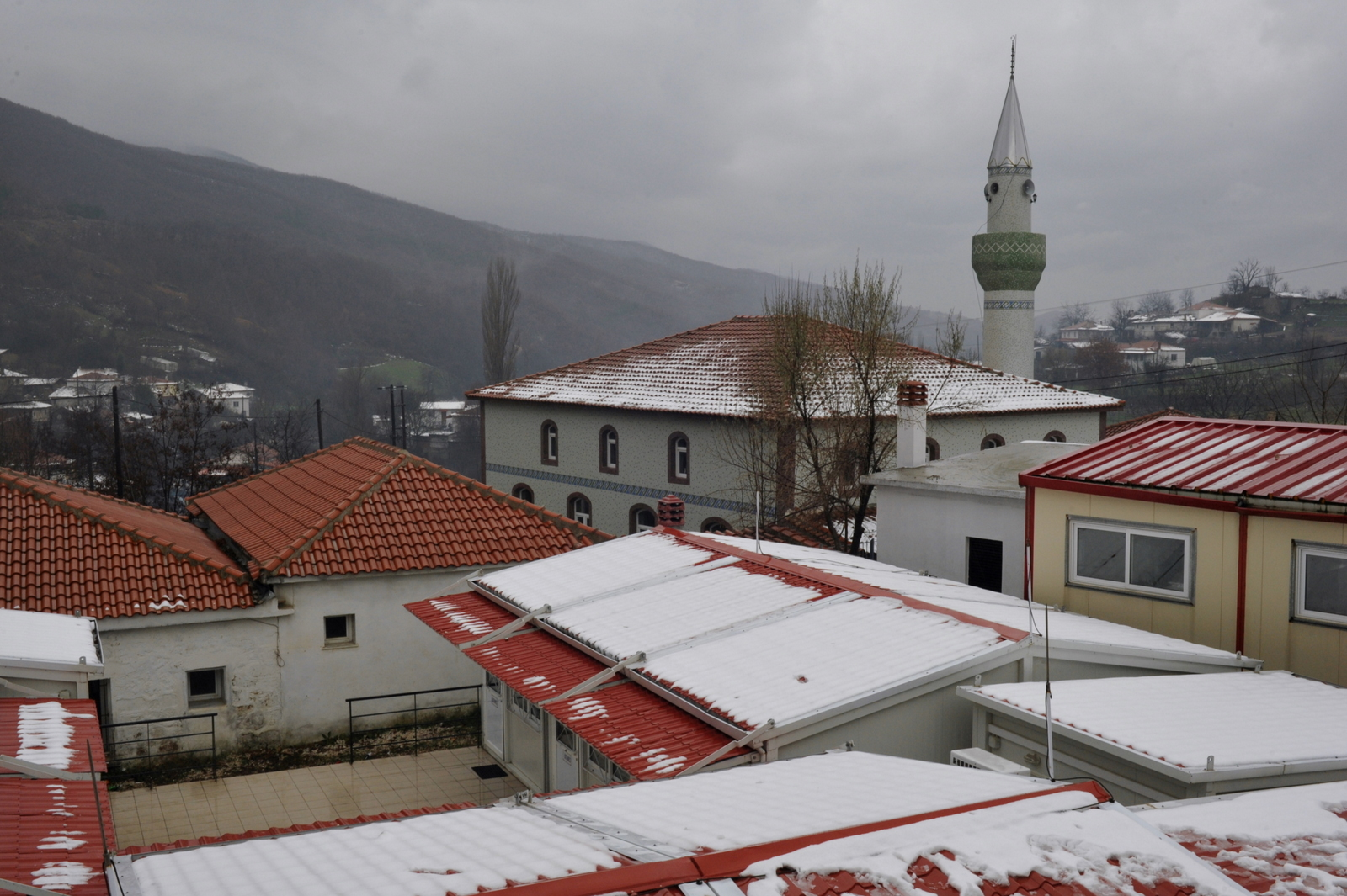 Organi village - main mosque - Rhodope, Thrace, Greece.